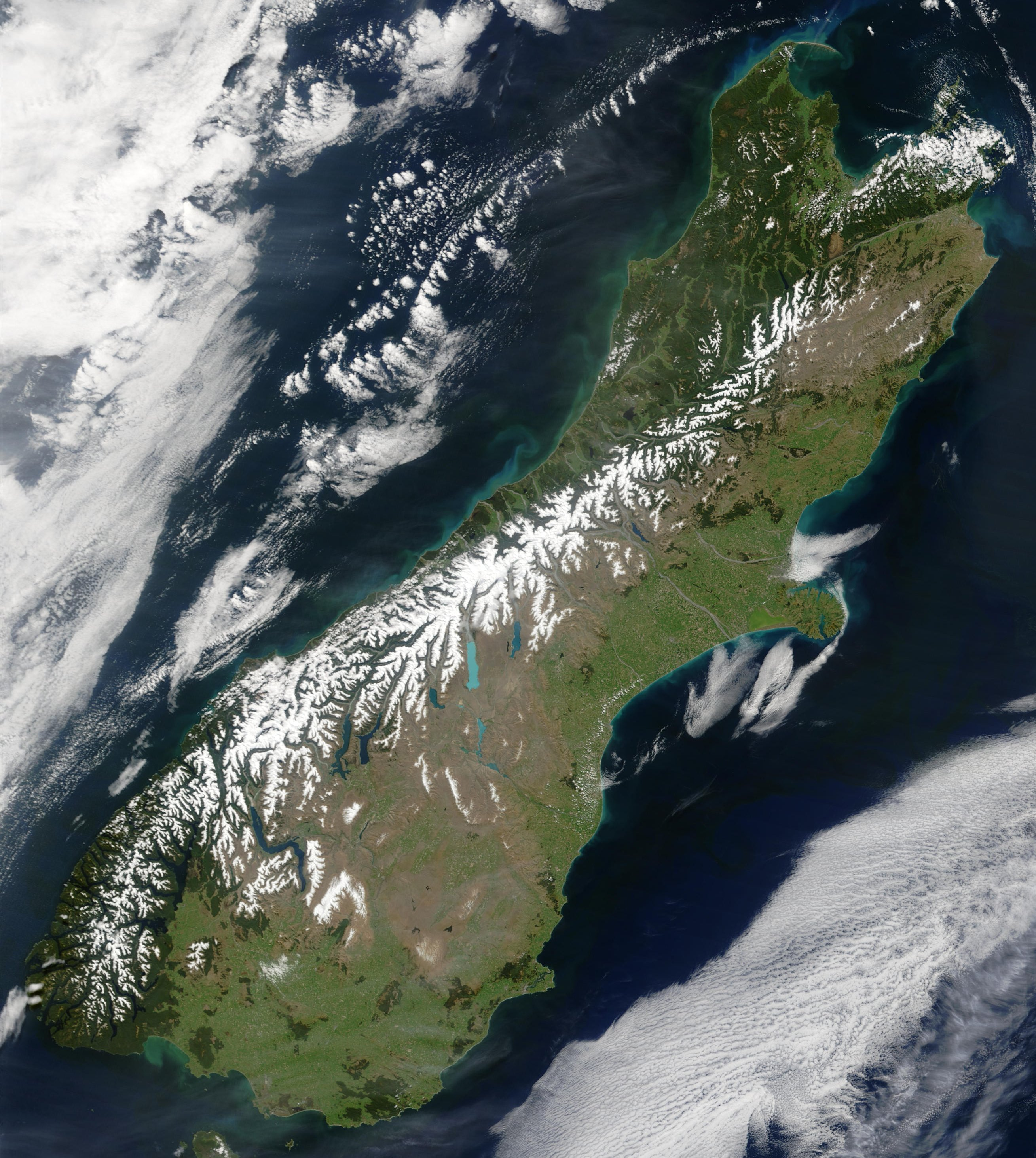 This true-color image provides a nearly cloud-free look at the South Island of New Zealand, from NASA’s Terra satellite.